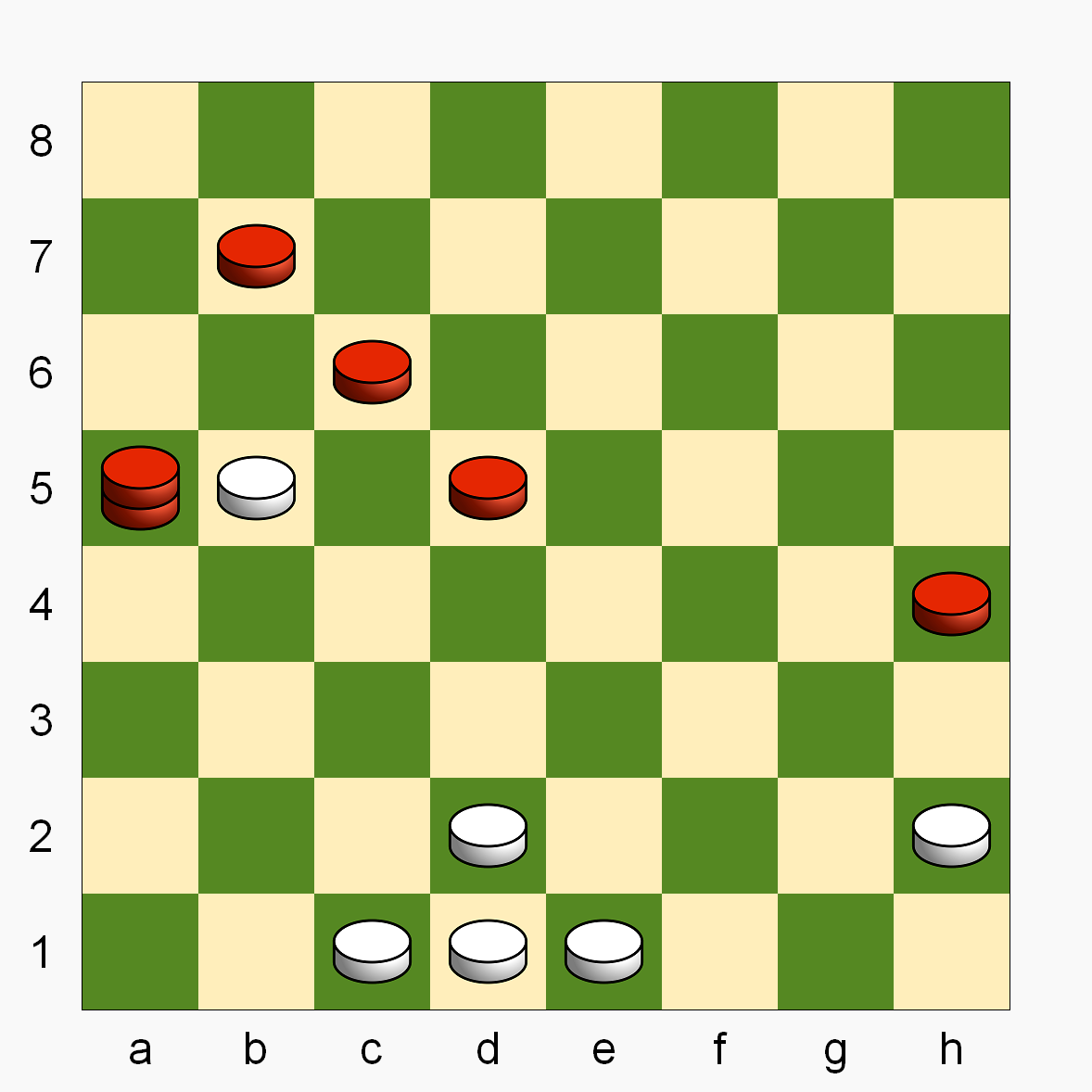 The Coup Turc in Dameo. Using the great checker icons of User:Stellmach (svg'd by User:Stannered); done in MS PAINT.